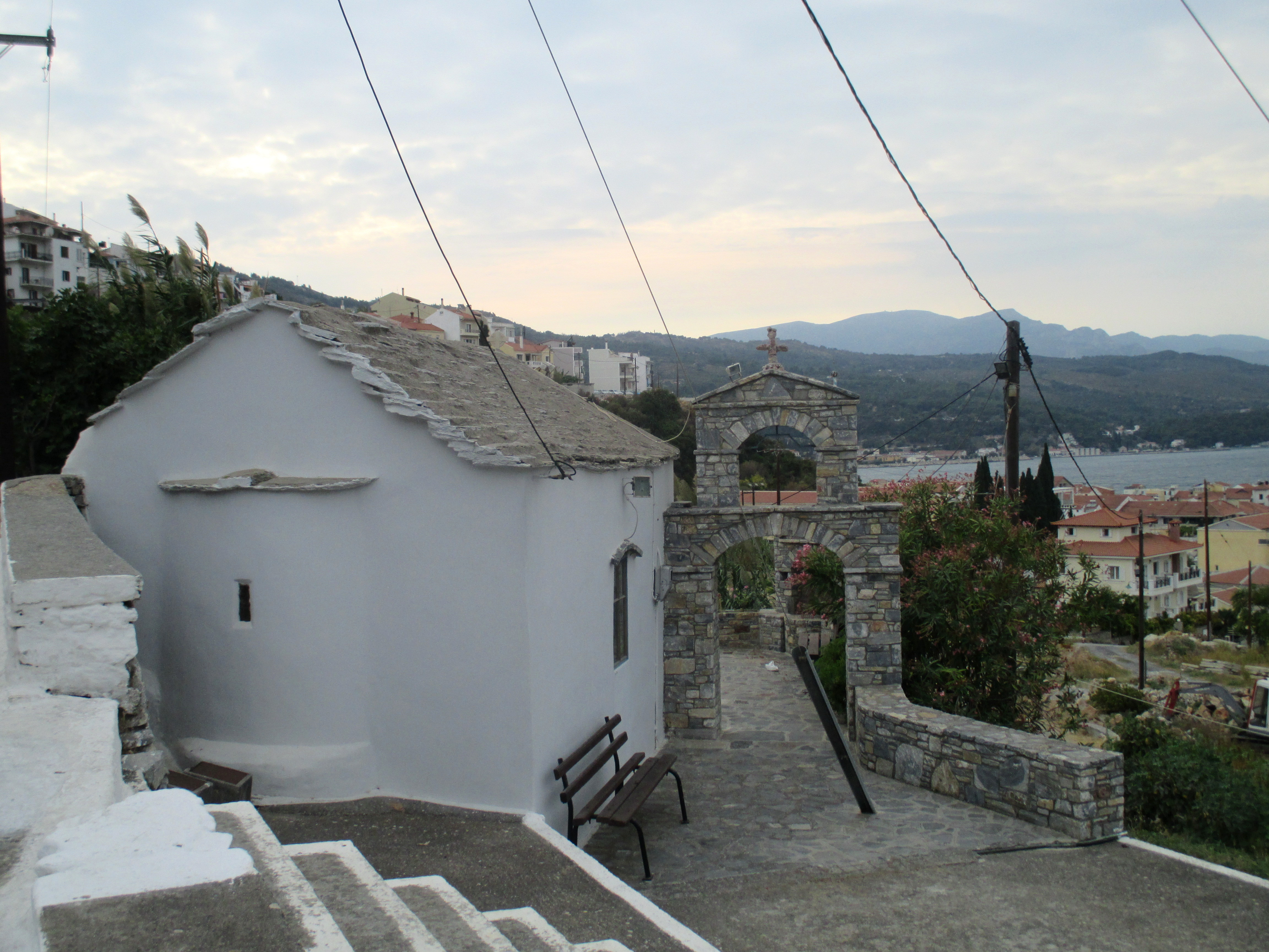 A small church in Vathy (Ano Vathy), Samos, Greece.